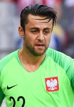 Łukasz Fabiański